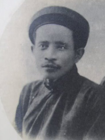 Ngo Duc Ke, published in a book named "Các bậc tiền bối cách mạng trong thời thuộc Pháp", by Anh-Minh publisher, 1959. Taken by a user from forum.